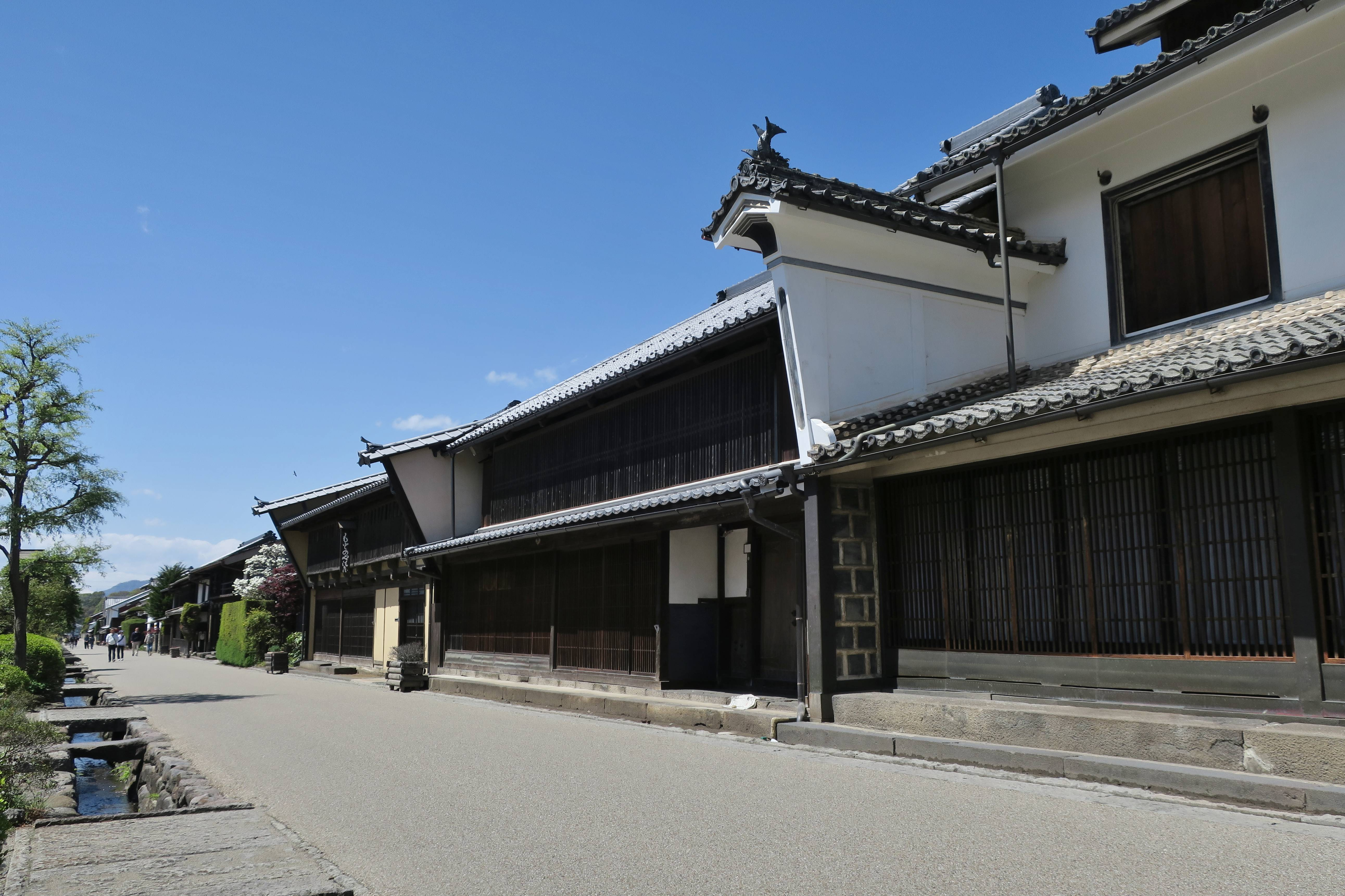 Unno-juku (Tōmi, Nagano).